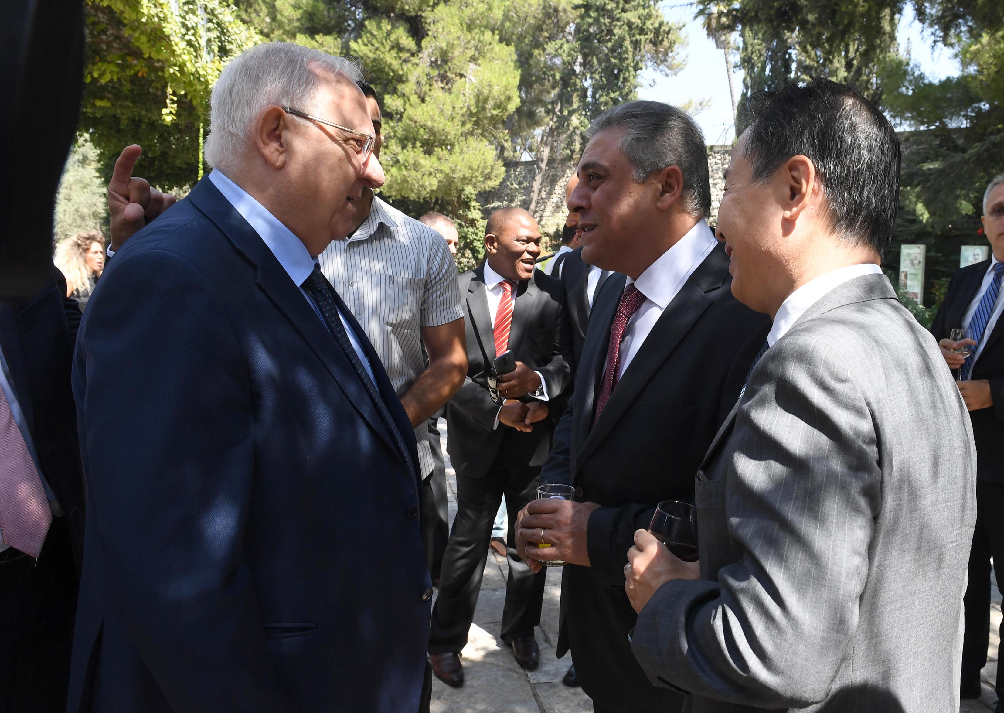 President of the State of Israel Reuven Rivlin and his wife at the President's Residence during a festive reception for the New Year with the diplomatic corps stationed in Israel. Monday, September 18, 2017. Photo Credit: Mark Neyman / GPO.